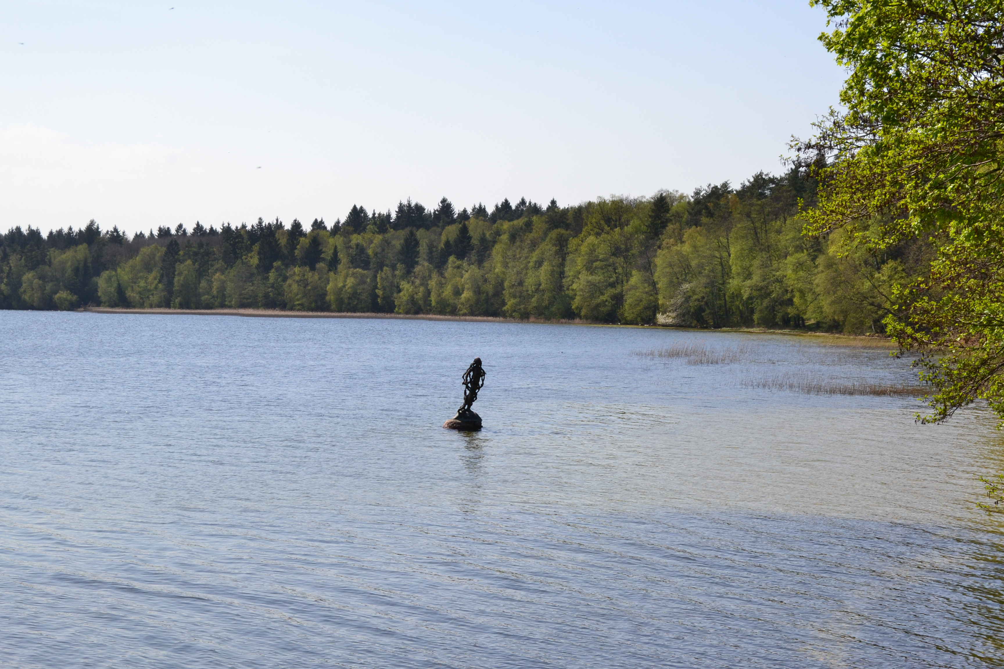 Sculpture of Świtezianka on the lake Świteź